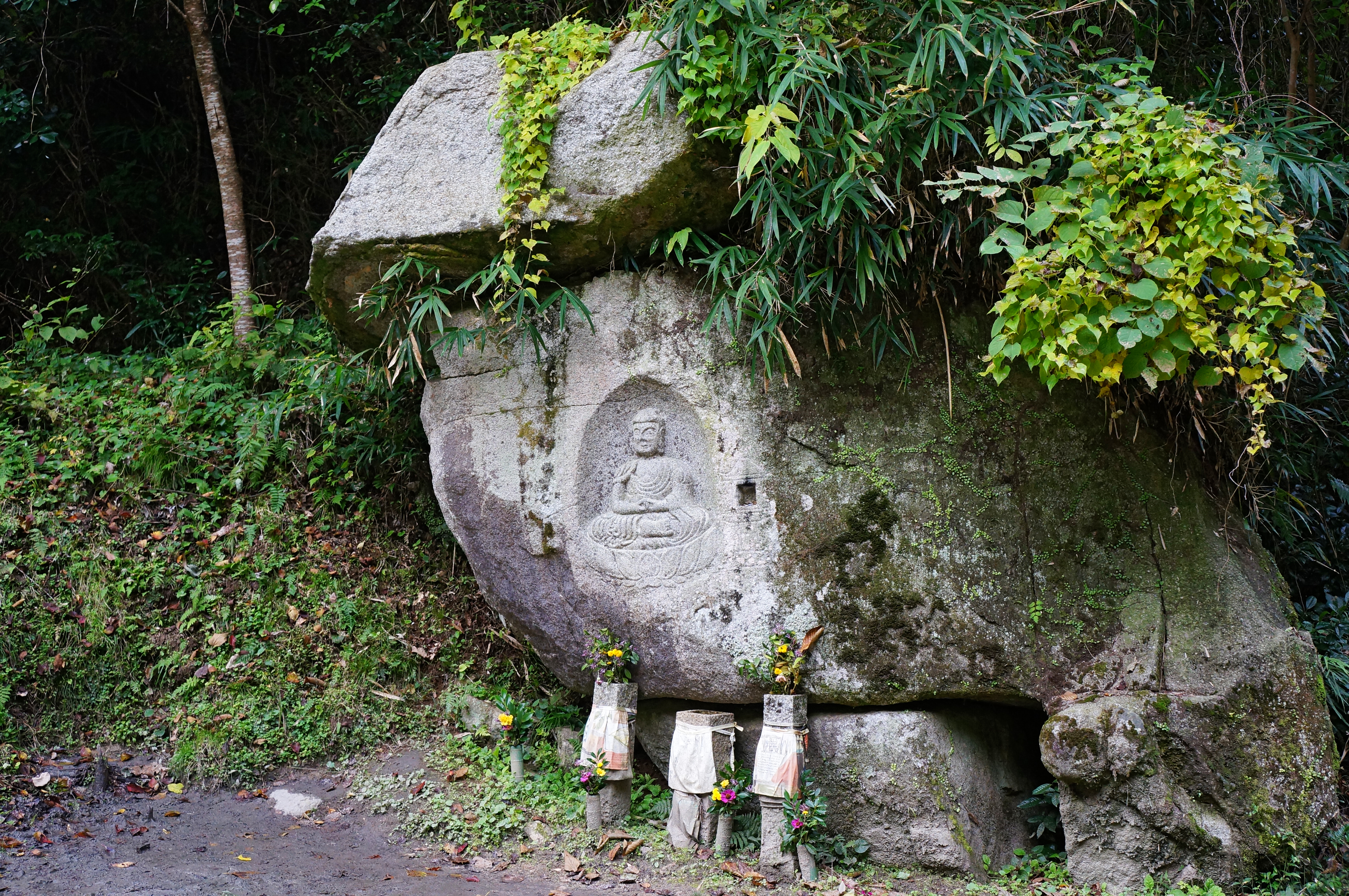 Tono, Kizugawa, Kyoto prefecture, Japan